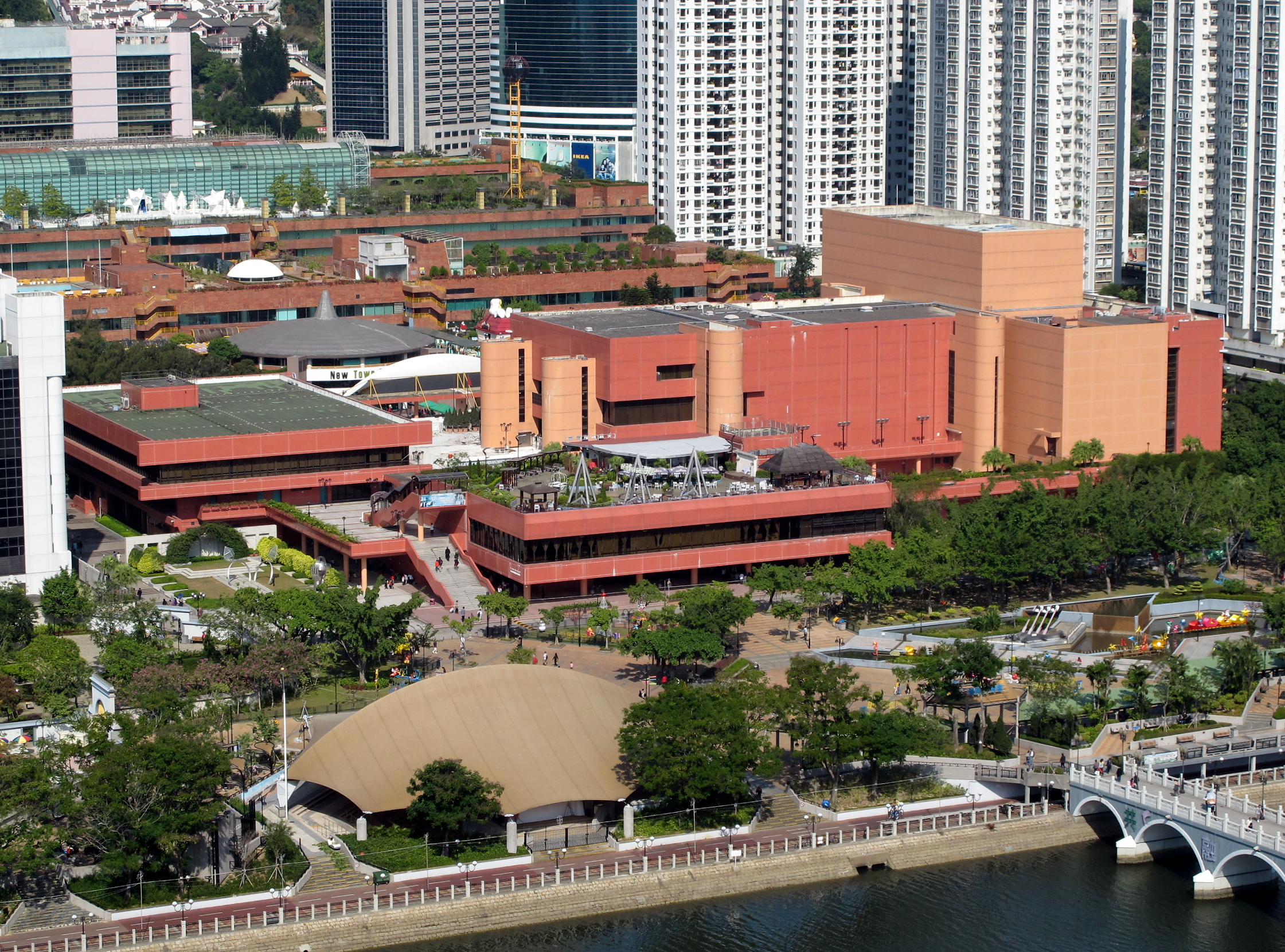 Shatin Town Hall Overview